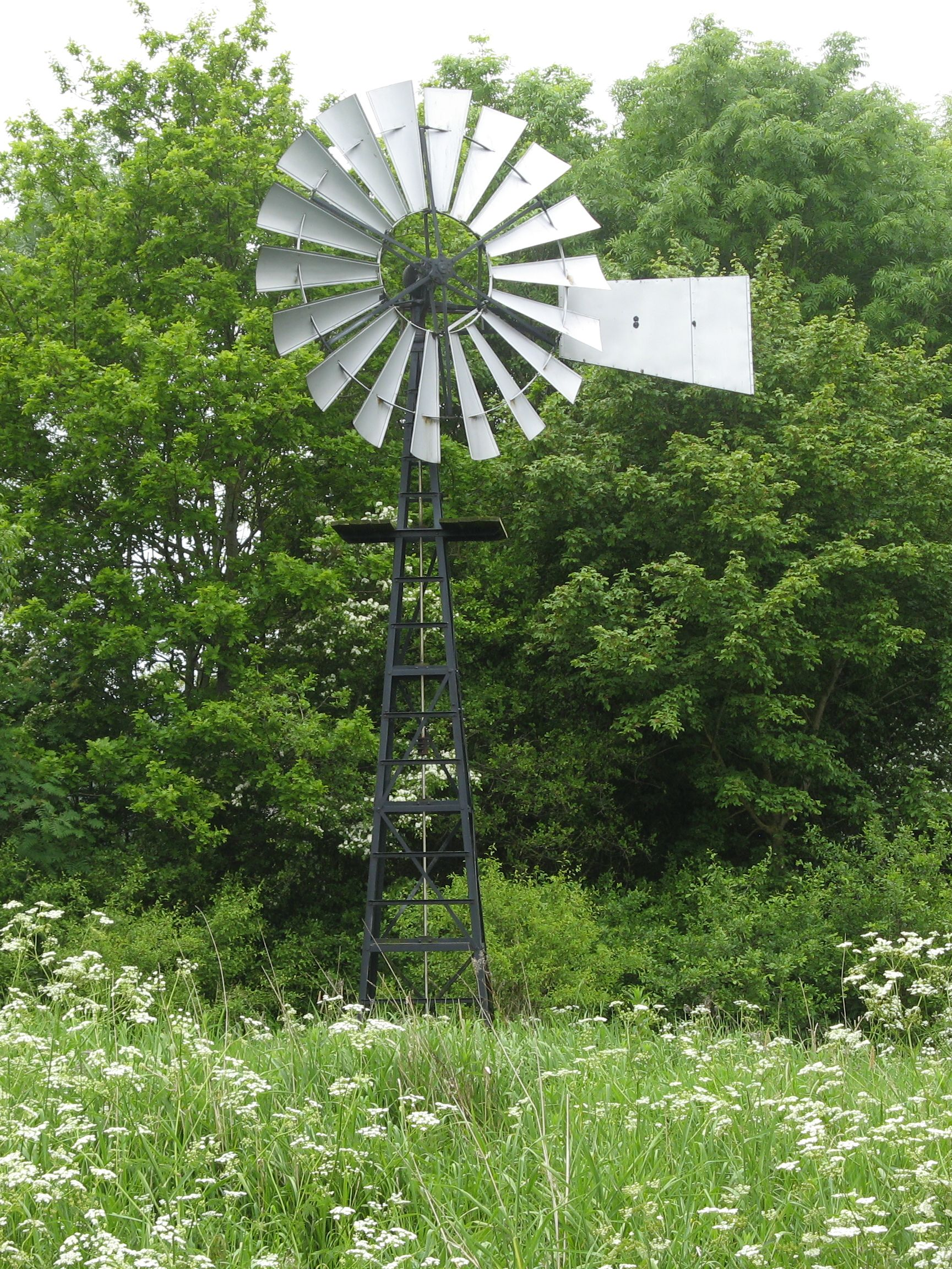 Windpump at Rinsumageast